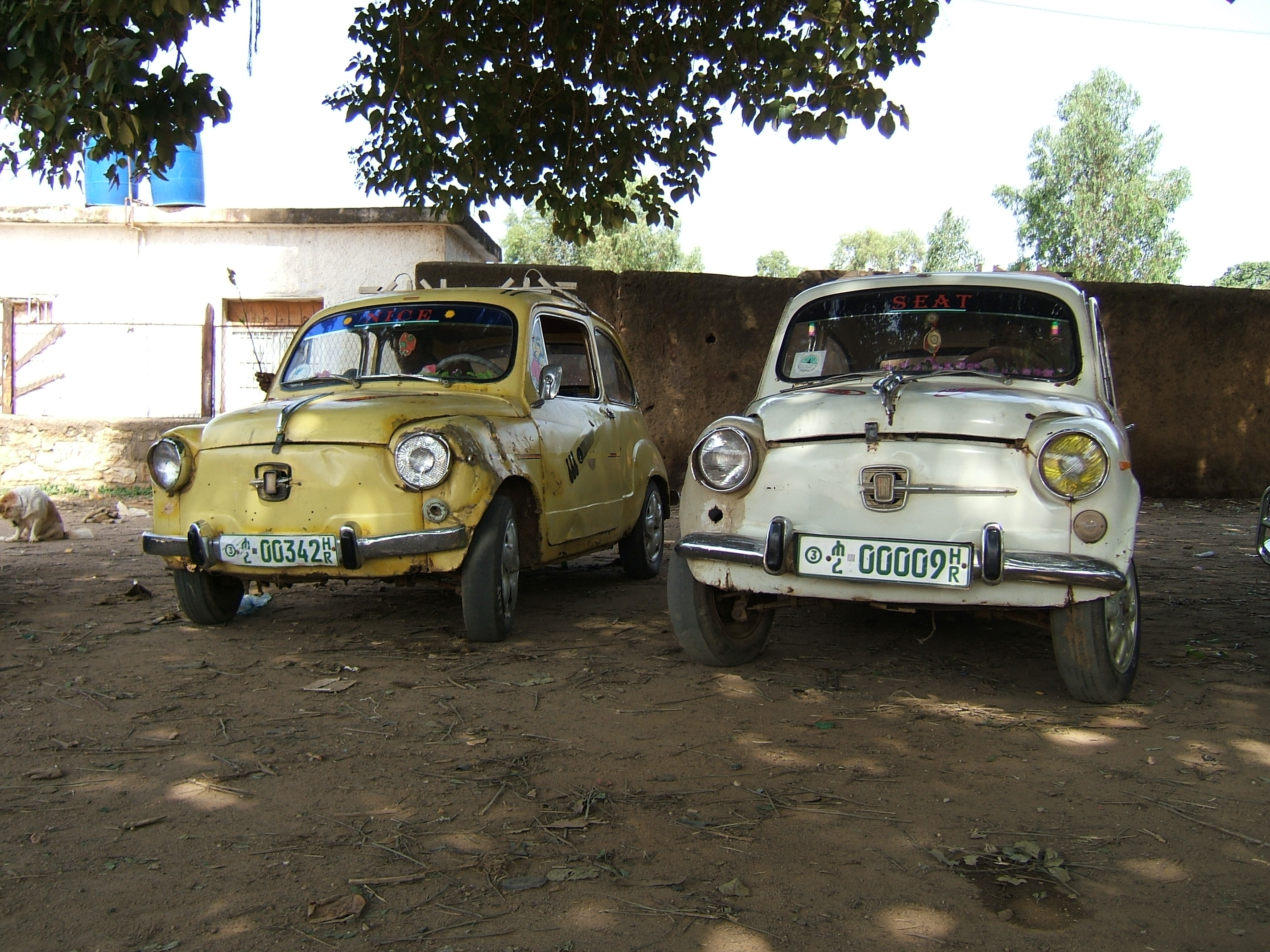 Two Fiat 600 in Harar, Ethiopia.